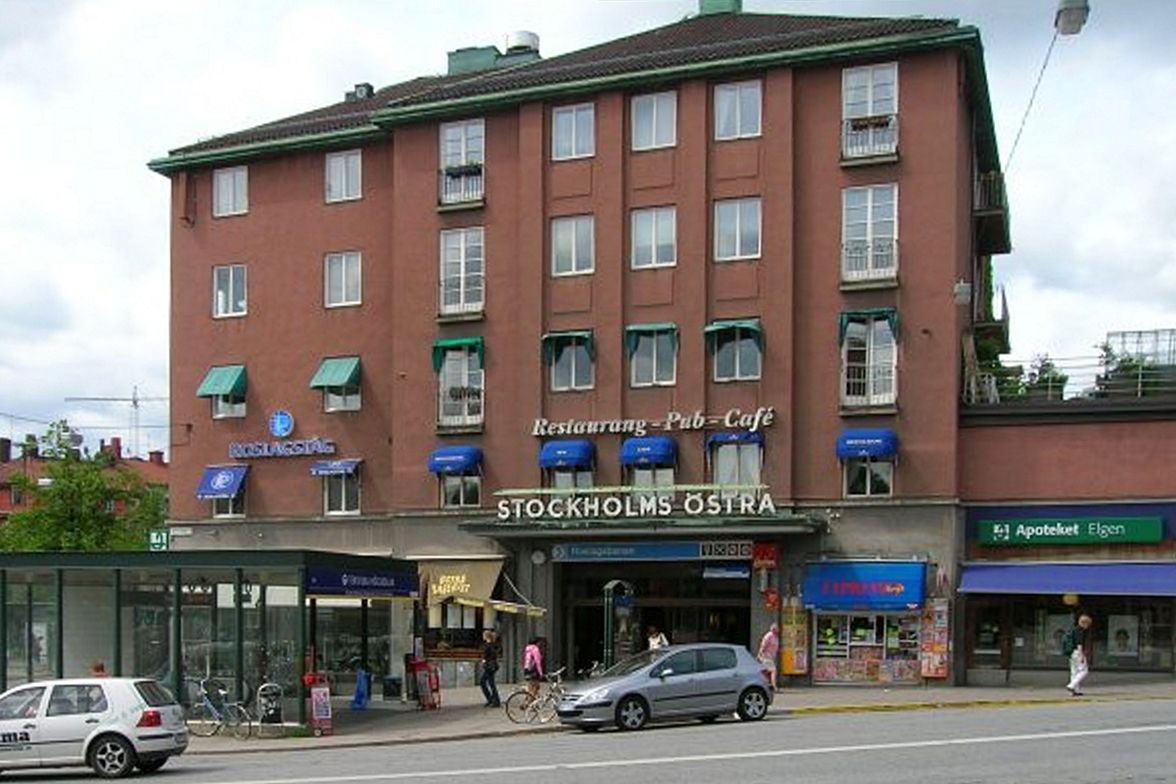 Stockholms östra station, Stockholm, Sweden